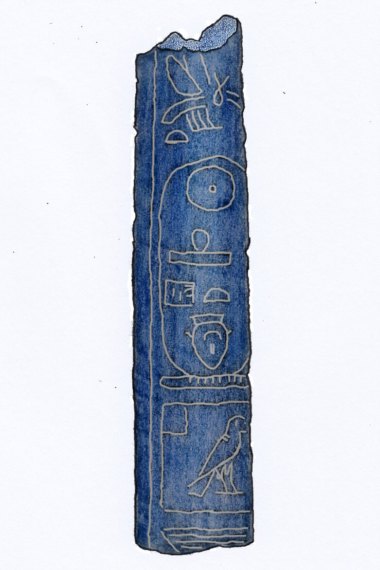 Drawing of a bilingual cylinder seal made from lapis lazuli. It bears the name of pharaoh Sehetepibre of the 13th Dynasty with a dedication to "Hathor, lady of Byblos" written in Egyptian hieroglyphs, and the name of the governor of Byblos Yakin-Ilu written in cuneiform. Unknown provenience, now at the Metropolitan Museum of Art (accession no. 26.7.21). Original picture and more infos here